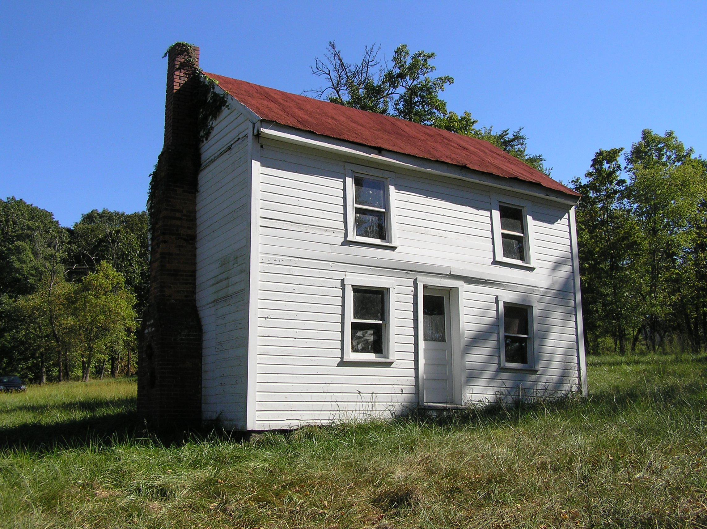 Washington Place (also known as the William Washington House) off of West Virginia Route 28 in Romney, West Virginia, United States.